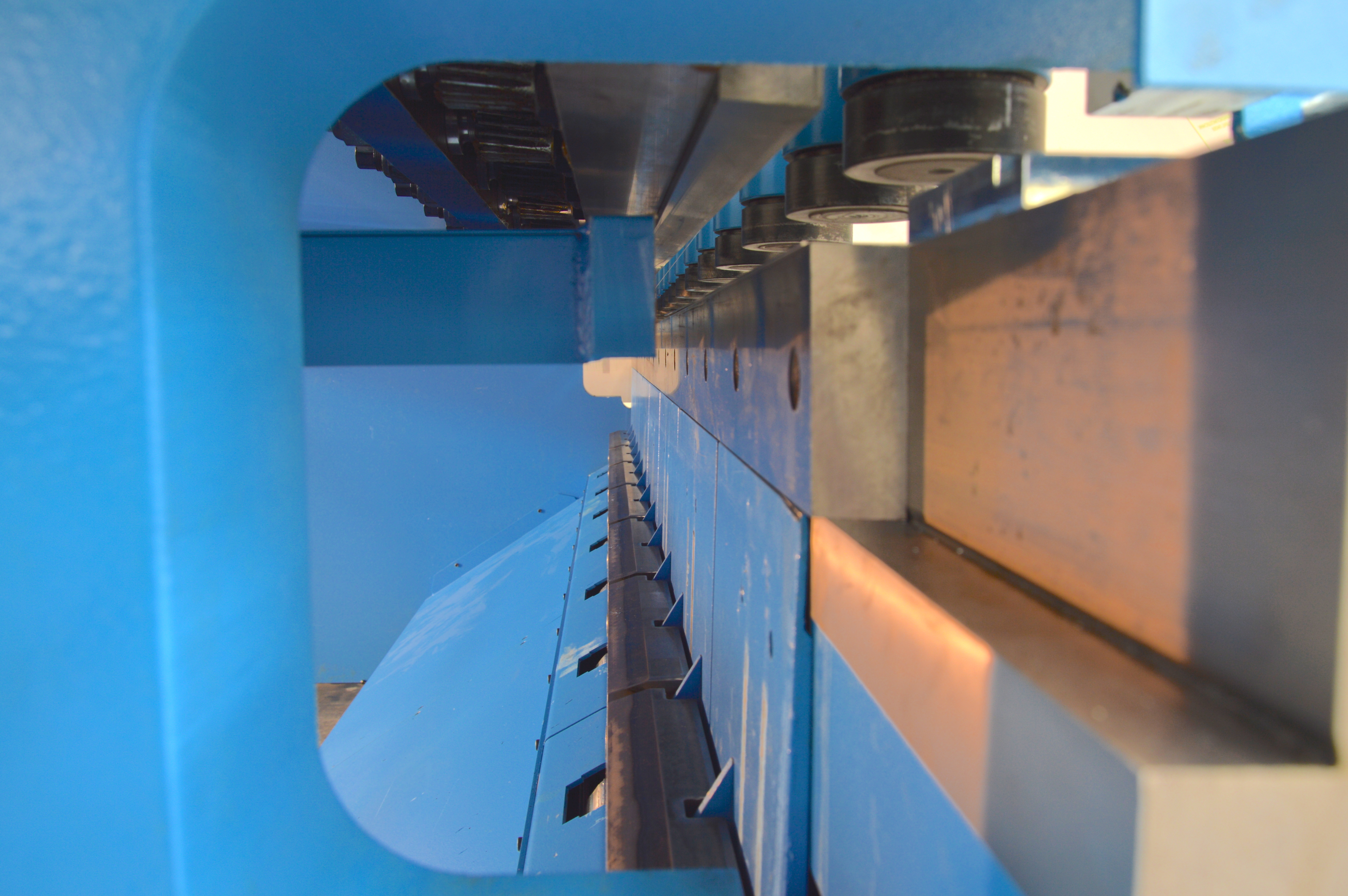 Gasparini sheet metal hydraulic guillotine power shear. Close-up of upper blade, lower blade, and work-holding device.